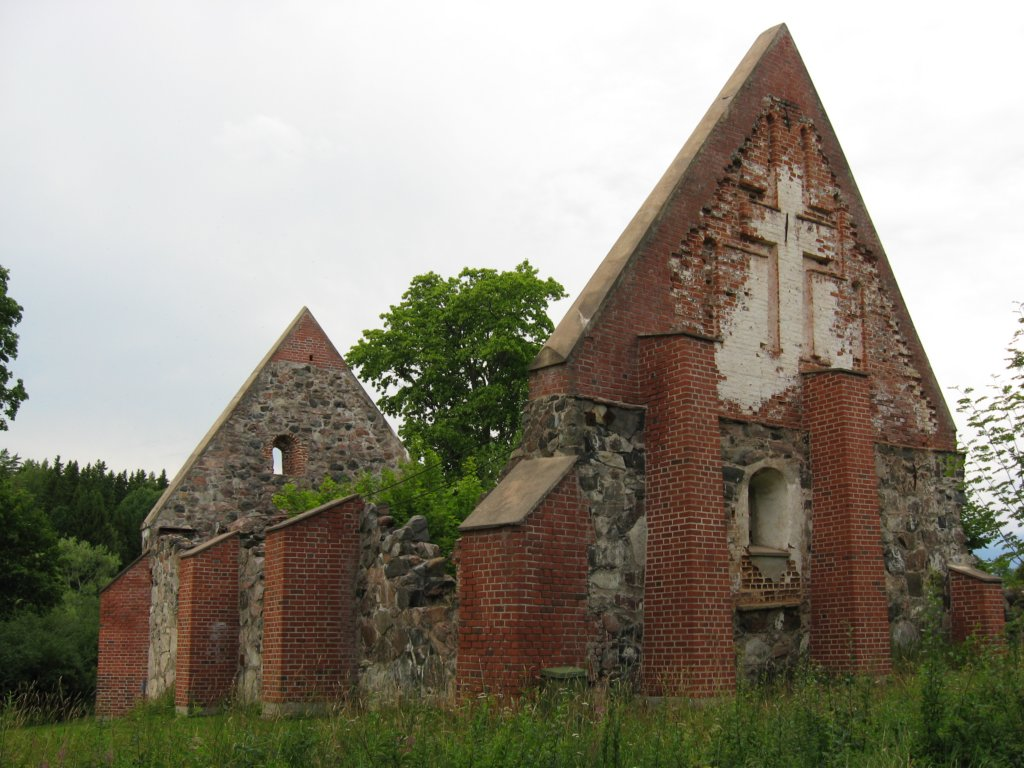 Norrköping Å Ödekyrka